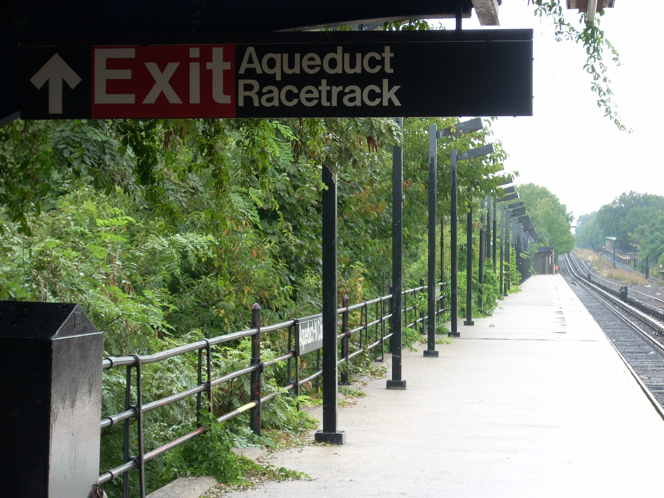 Downtown Platform overview of N.Conduit Avenue (facing uptown)